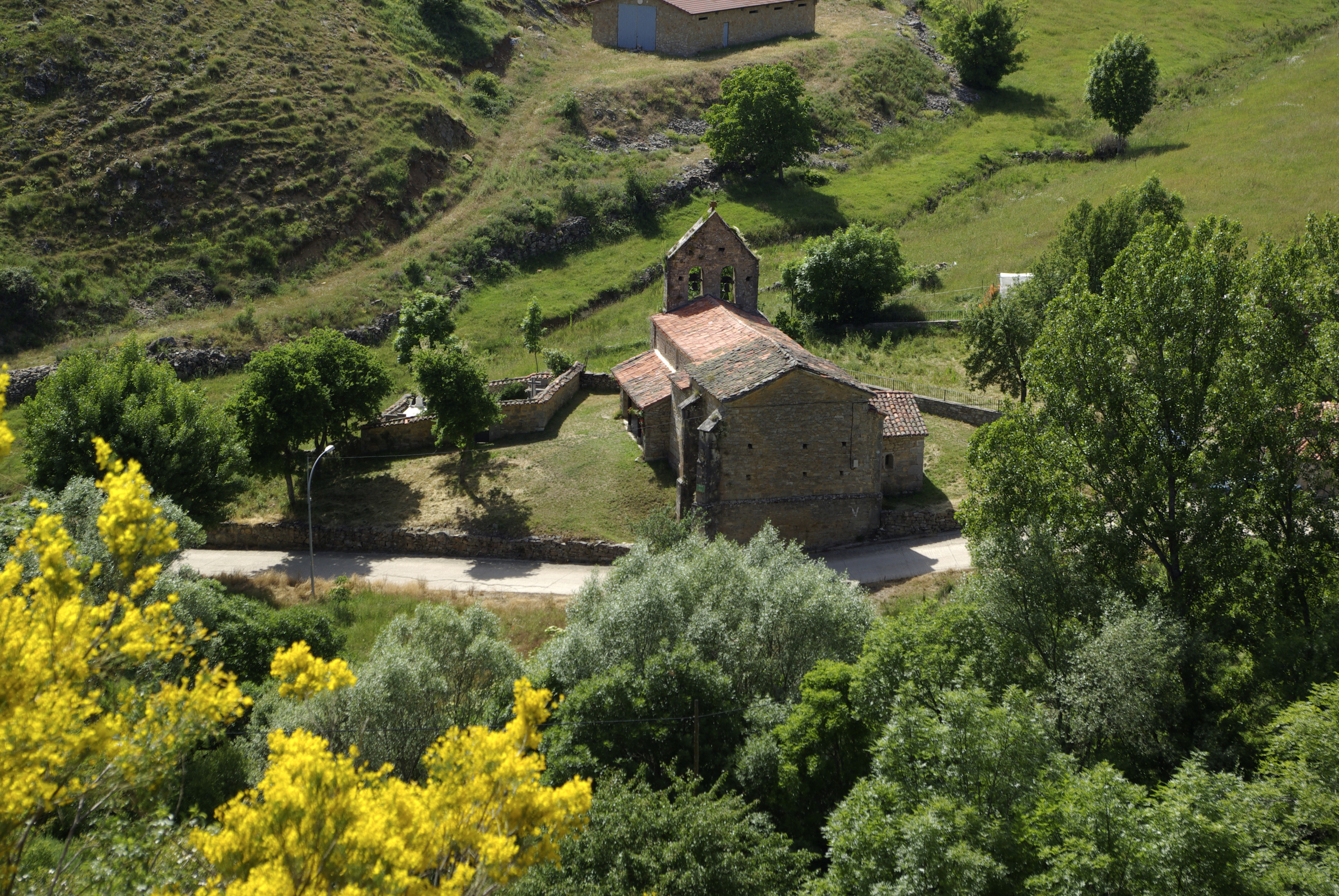 Church in Piedrasecha (Carrocera, León, Spain).